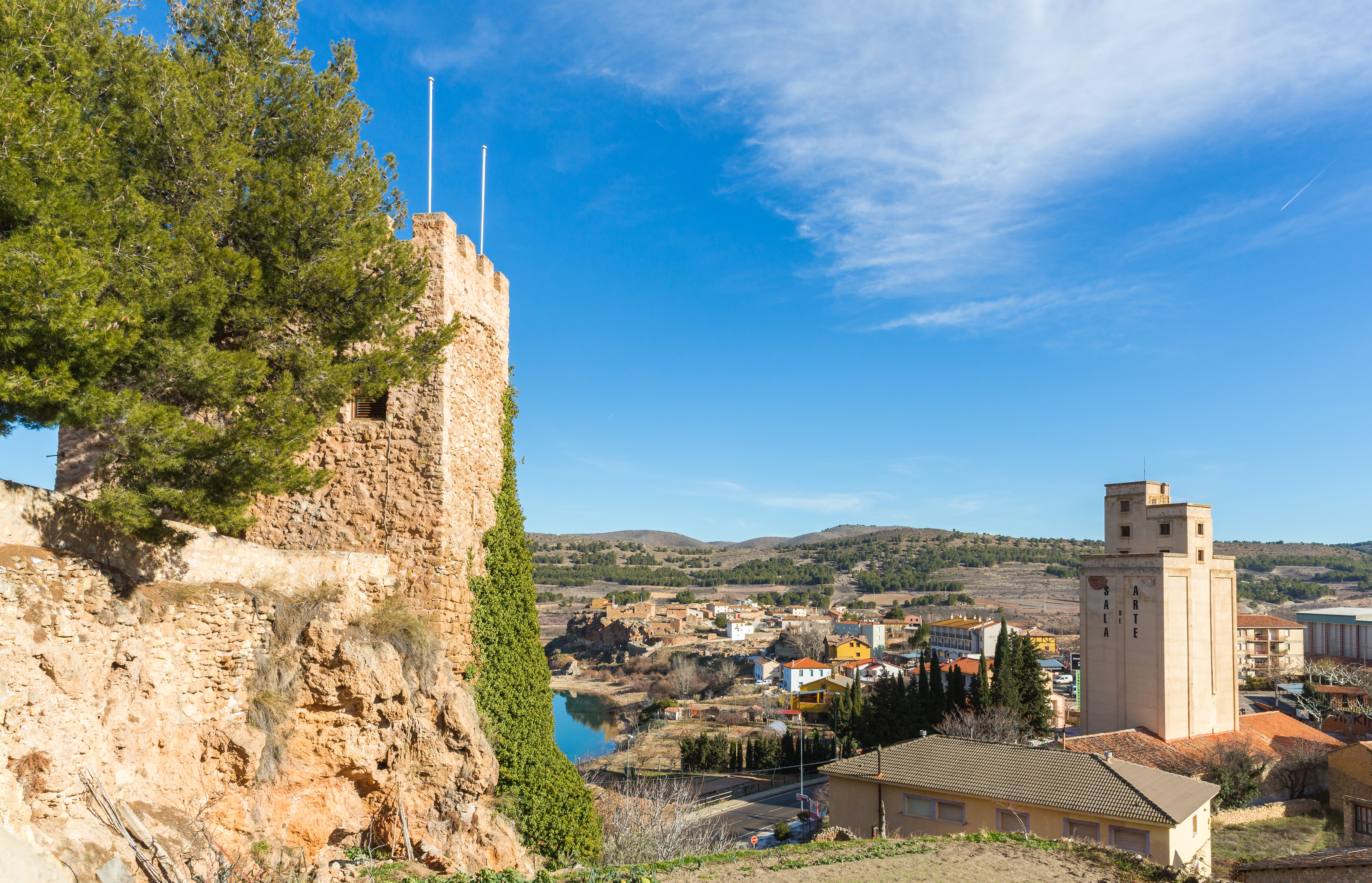 View of Nuévalos, Zaragoza, Spain